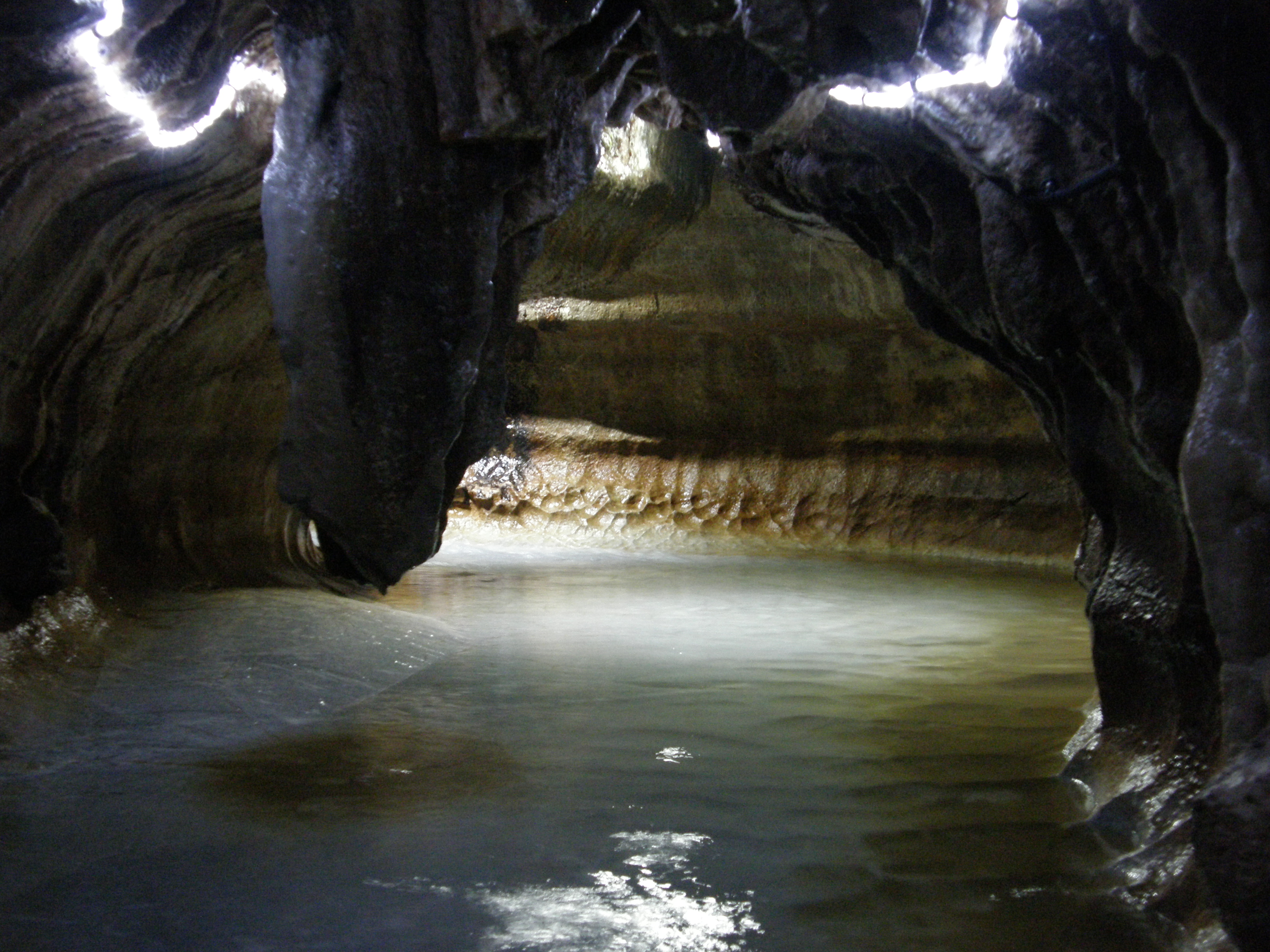 Senbutsu-shōnyūdō.